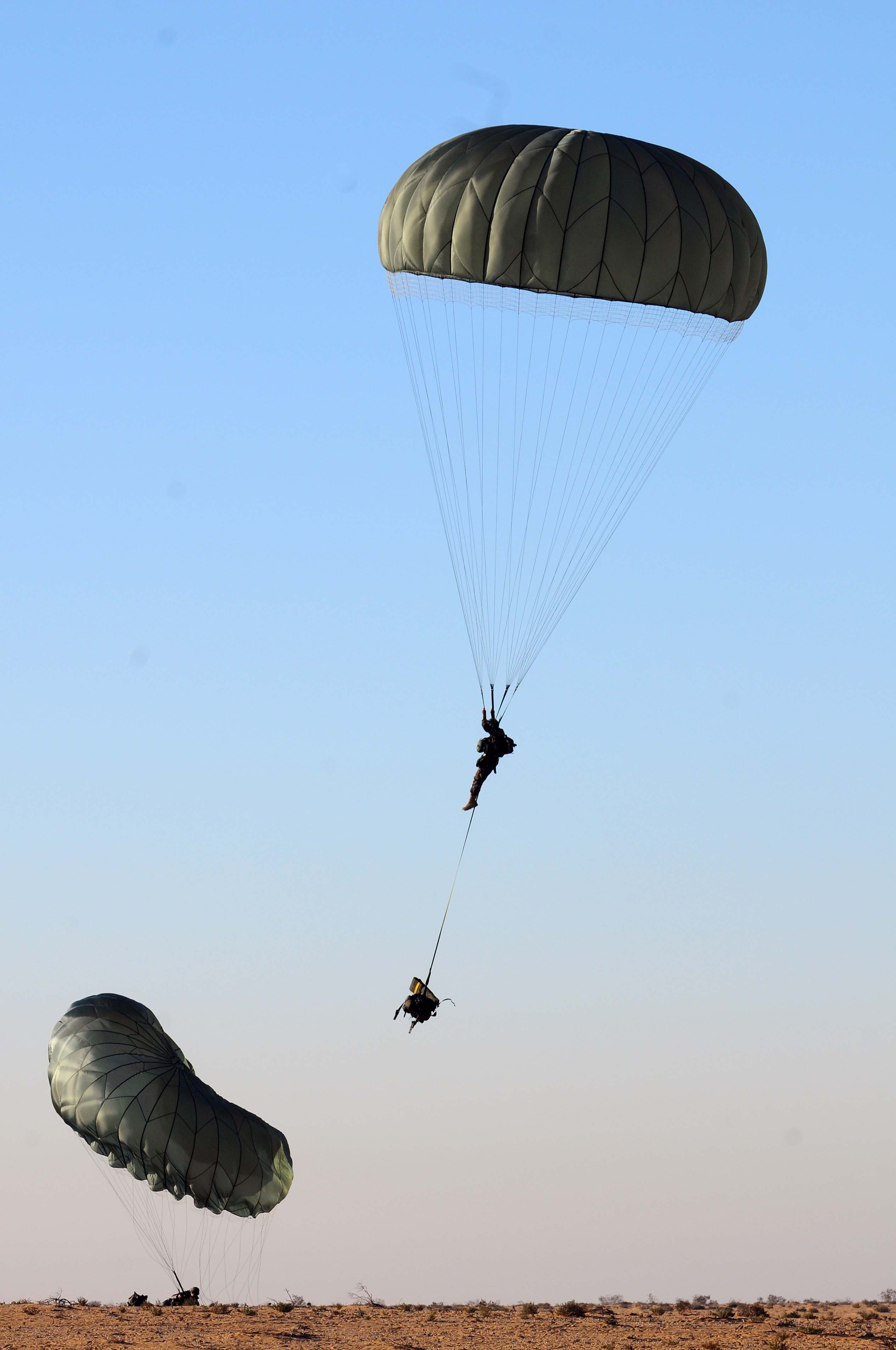 090625-A-3298C-243 Author: Sgt. 1st Class Craig L. Collins Readiness NCO 70th MPAD Paratroopers from the 1-325th Airborne Infantry Regiment, 82 Airborne Division touch down in a landing zone on Mubarak Military City, Egypt while participating in a strategic airborne jump as part of Operation Bright Star 2009. Egyptian, German, Kuwaiti and Packistani paratroopers jumped with the paratroopers from the 82nd Airborne in order to share expertise and promote team building.